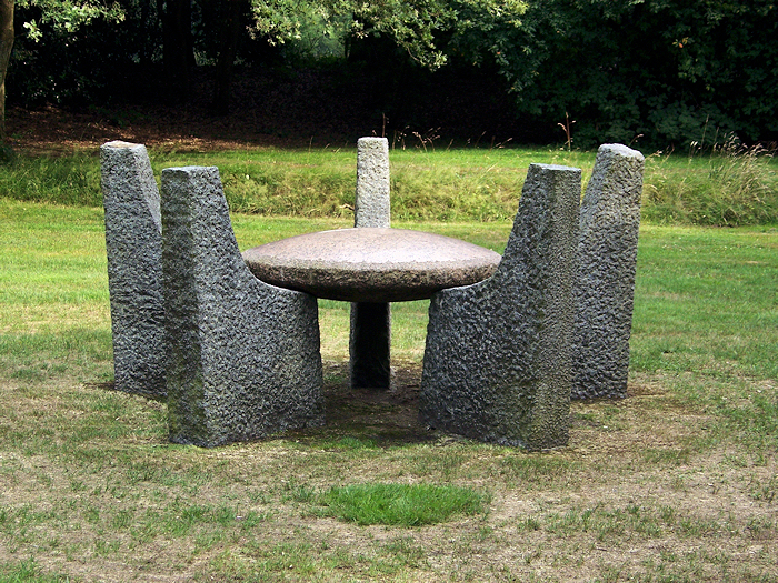 Artwork Zonnetafel (1996, pink and grey granite) in Valthe.